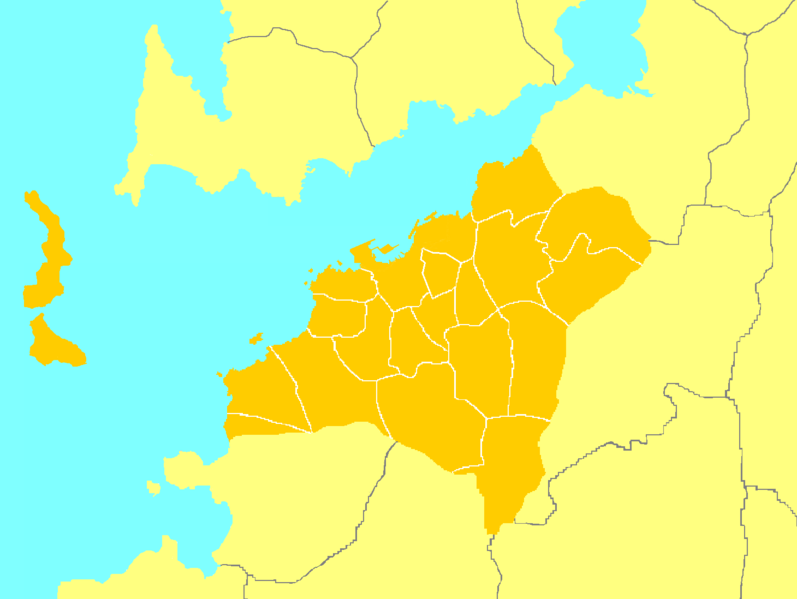 parroquias de vigo